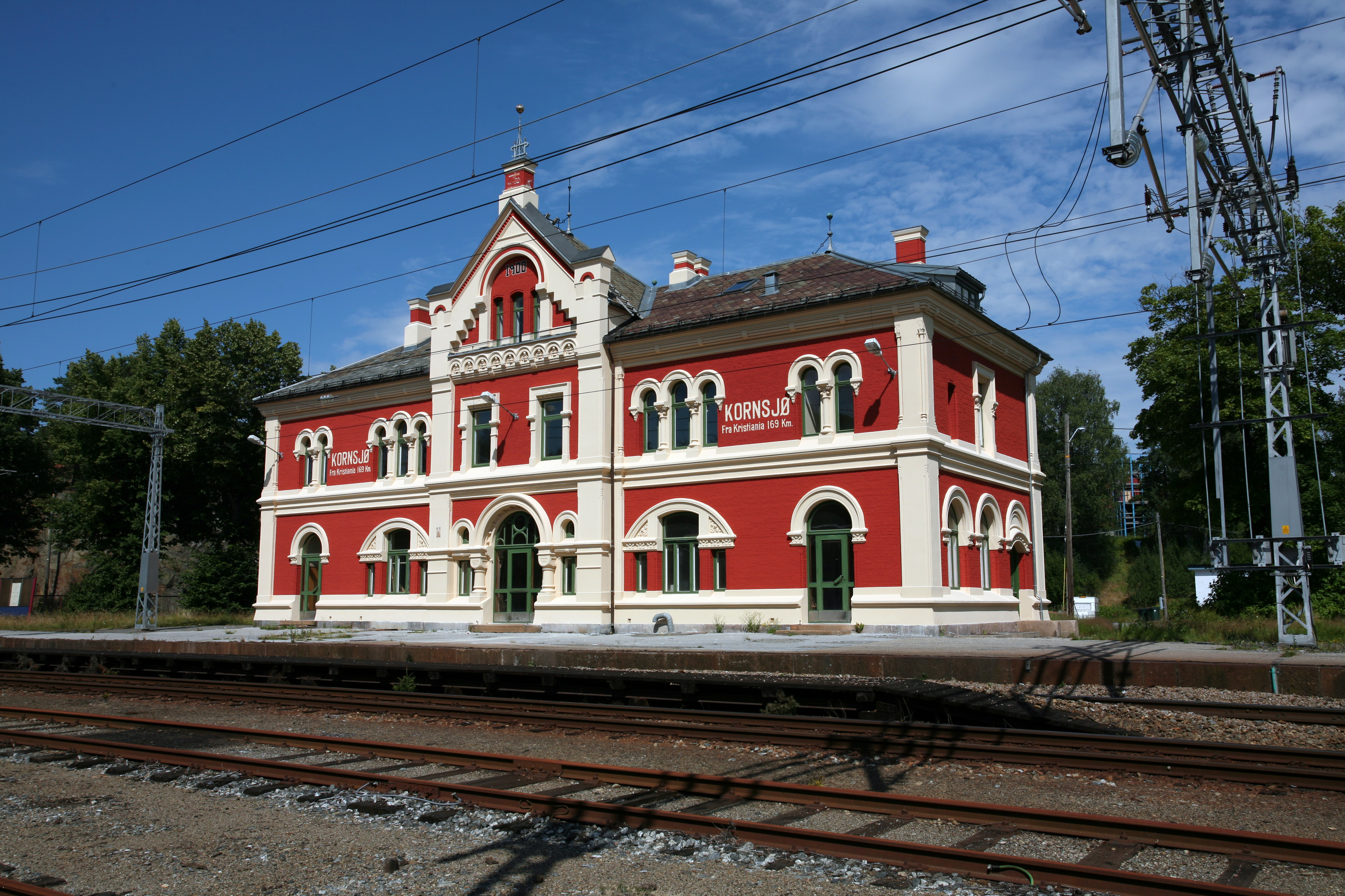 Picture of Kornsjø Railway Station (Norway) Norsk (bokmål): Bilde av Kornsjø stasjon